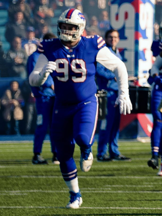 The Buffalo Bills take to the field before the start of the NFL's annual Salute to Service event before their game against the Chicago Bears game, Orchard Park, N.Y., Nov. 4, 2018. Service members from all branches of the military were honored and unfurled an American flag over the field. (U.S. Air National Guard photo by Staff Sgt. Ryan Campbell)